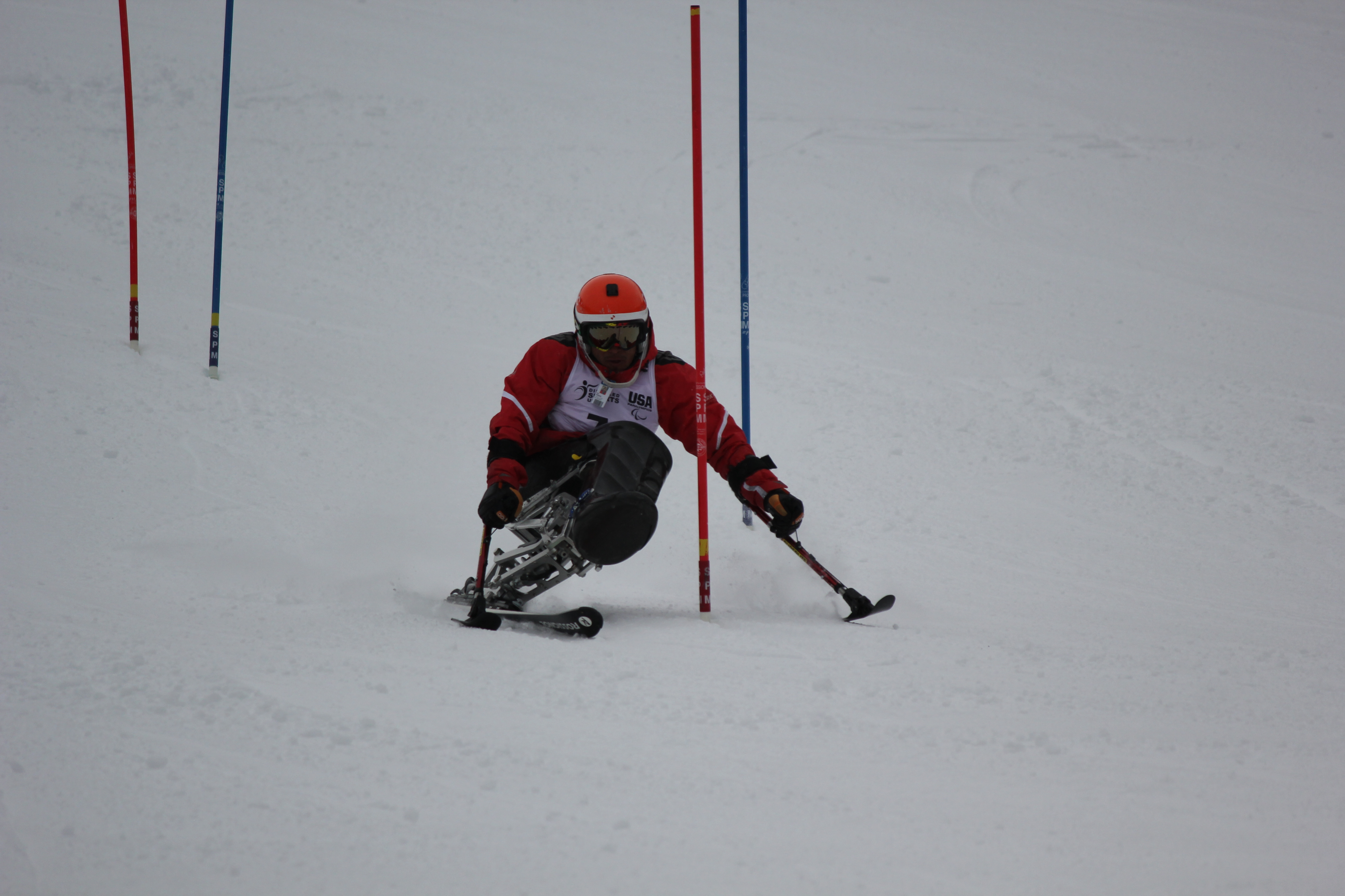 Arly Velazquez on 14 December 2012 on the slalom course at the IPC Nor-Am Cup.